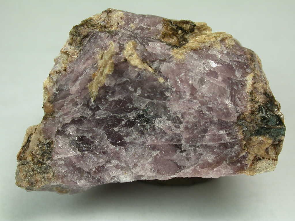 Ussingite, Vuonnemite Locality: Shkatulka pegmatite, Umbozero mine (Umbozerskii mine), Alluaiv Mt, Lovozero Massif, Kola Peninsula, Murmanskaja Oblast', Northern Region, Russia Original description: A 3.9 by 2.7 cms mass of lilac Ussingite with some yellowish Vuonnemite. JSS specimen and photo.